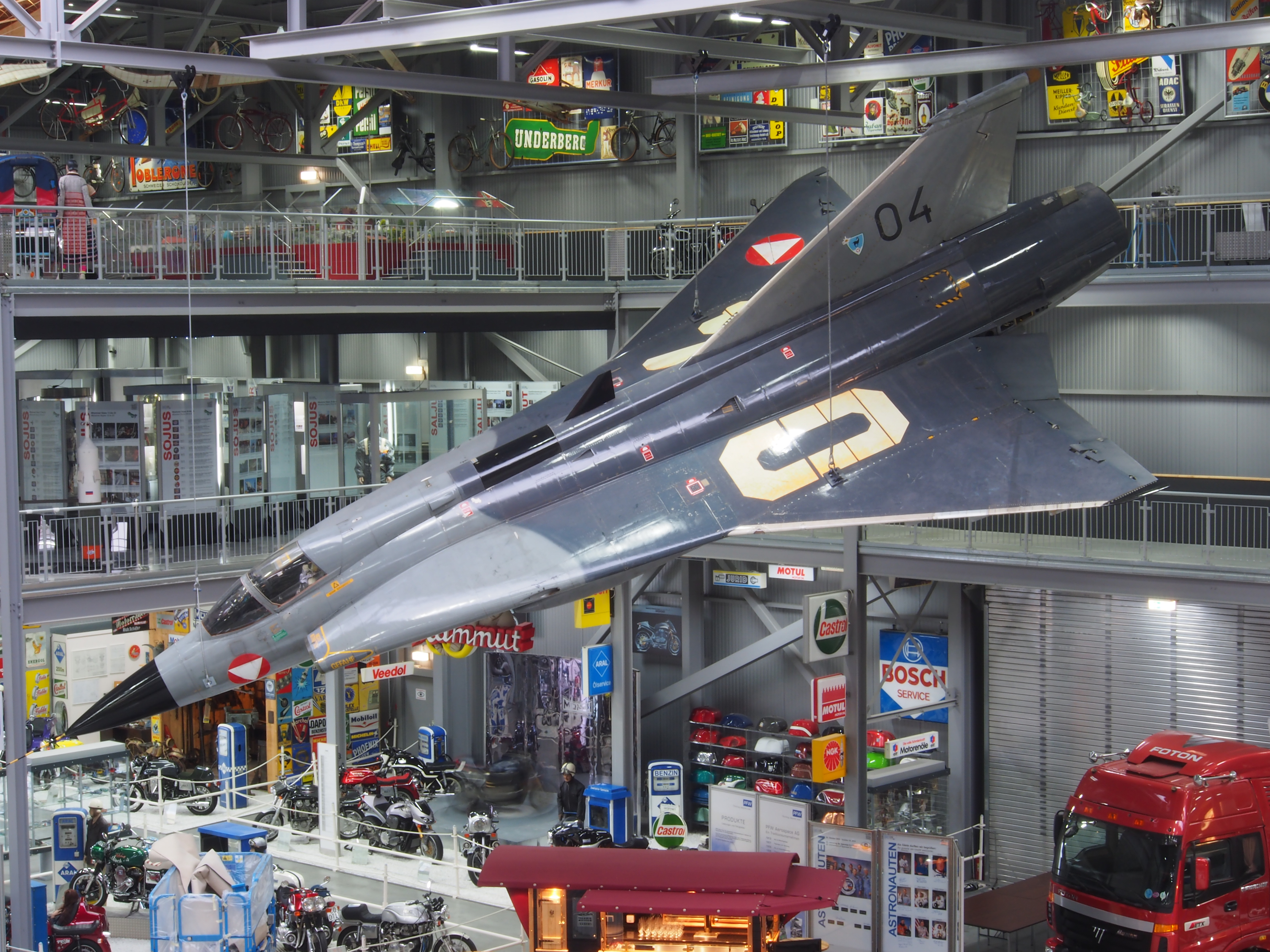 Saab J 35Ö Draken 351404 ex Austrian Air Force (originally J 35D 35317 of the Swedish Air Force) on display at Technik Museum Speyer, Germany.